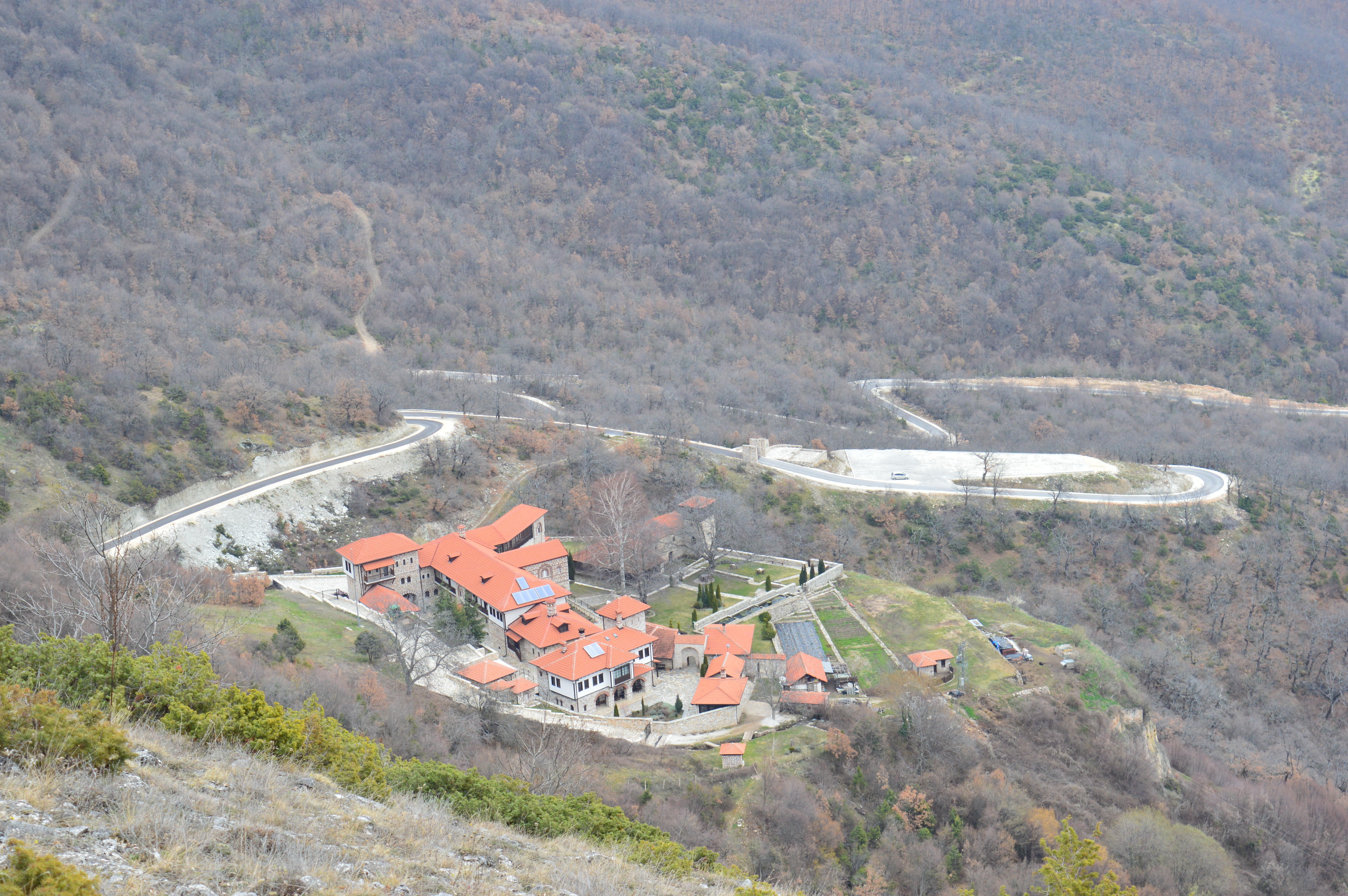 Monastery of Holly Transfiguration in Zrze seen from the ridge of Dautica mountain, Macedonia